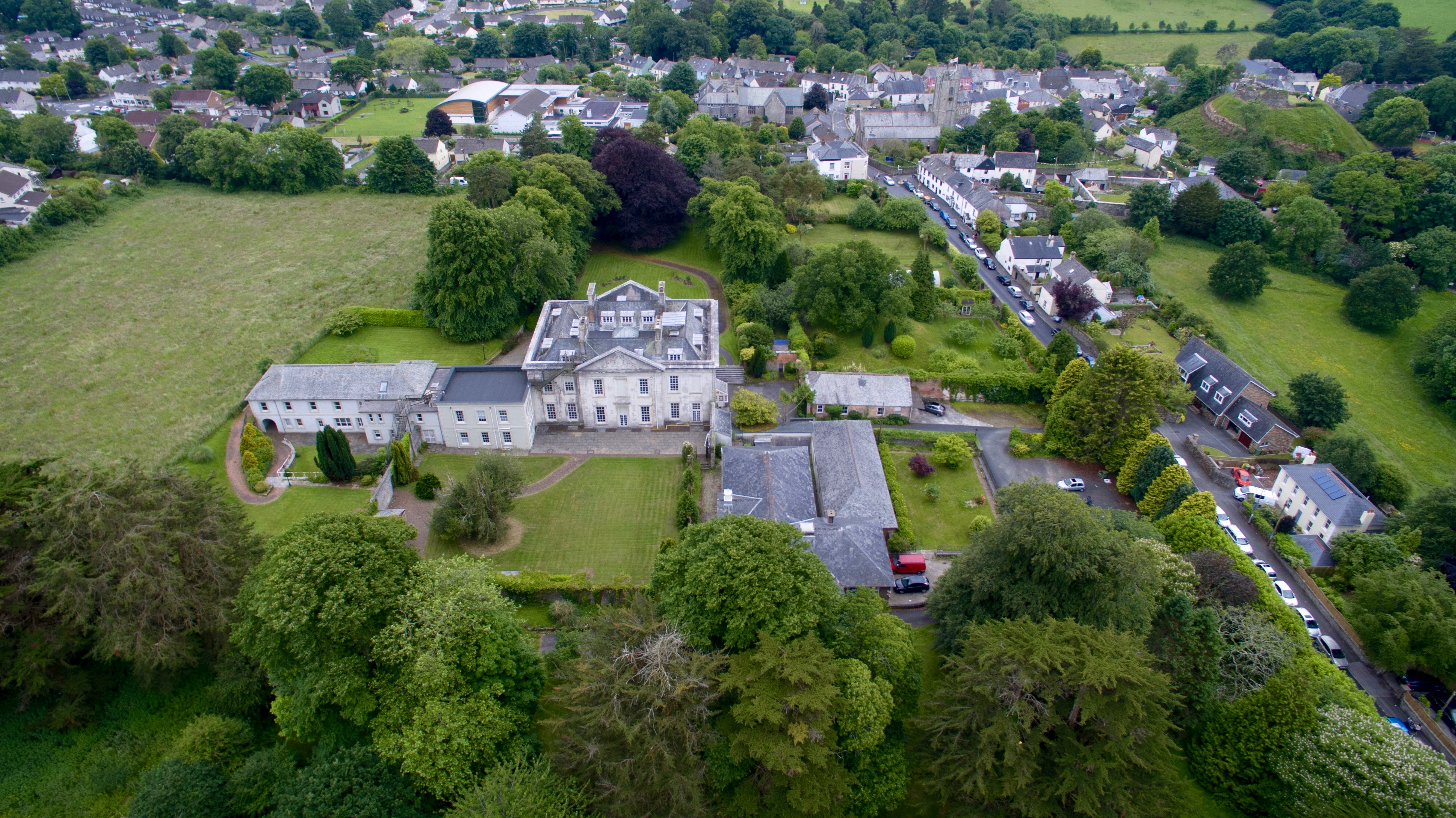 The Plympton House Estate in Plympton St Maurice near Plymouth in South Devon, UK